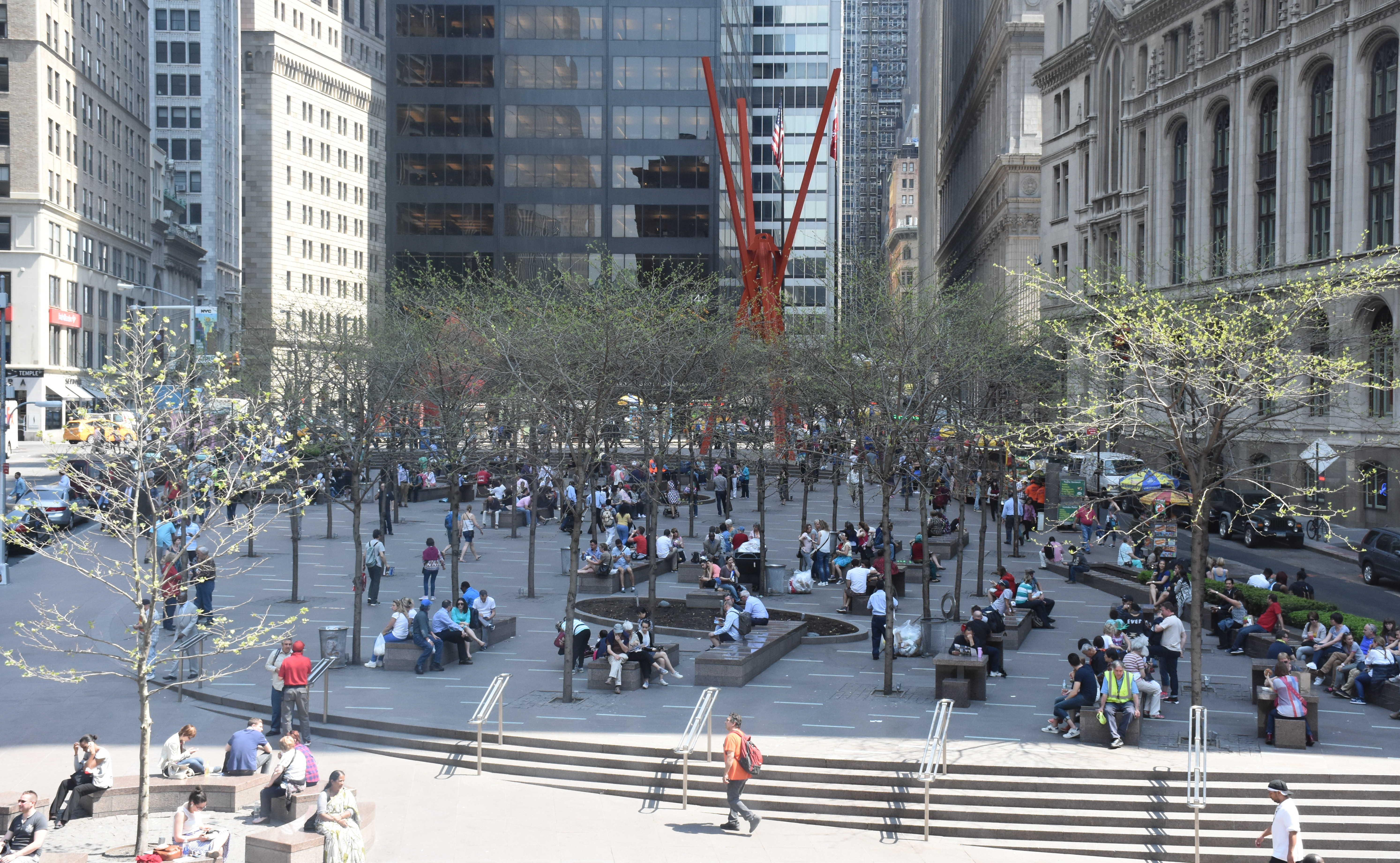 Zuccotti Park in the Financial District of New York City in Spring 2015